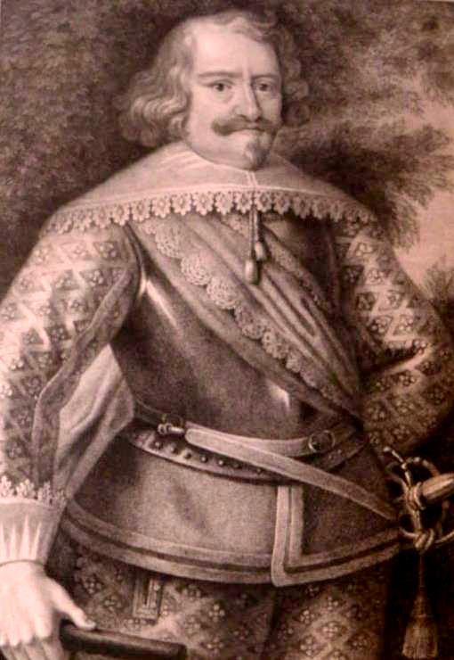 Diego Dávila Mesía y Guzmán, 3rd Marquis of Leganés, Spanish Governor of Milan